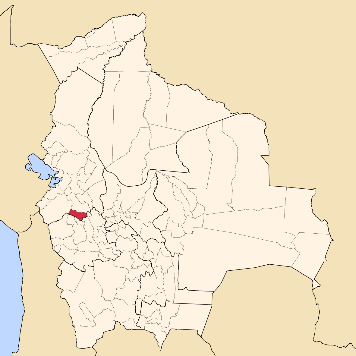 Map of Bolivia showing Gualberto Villarroel province, La Paz